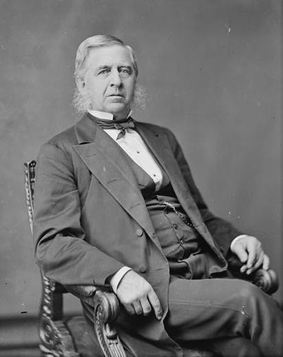 English, Hon. Sen. James E. of Conn.